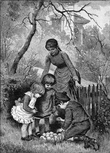 (Removed after reusableart request.)